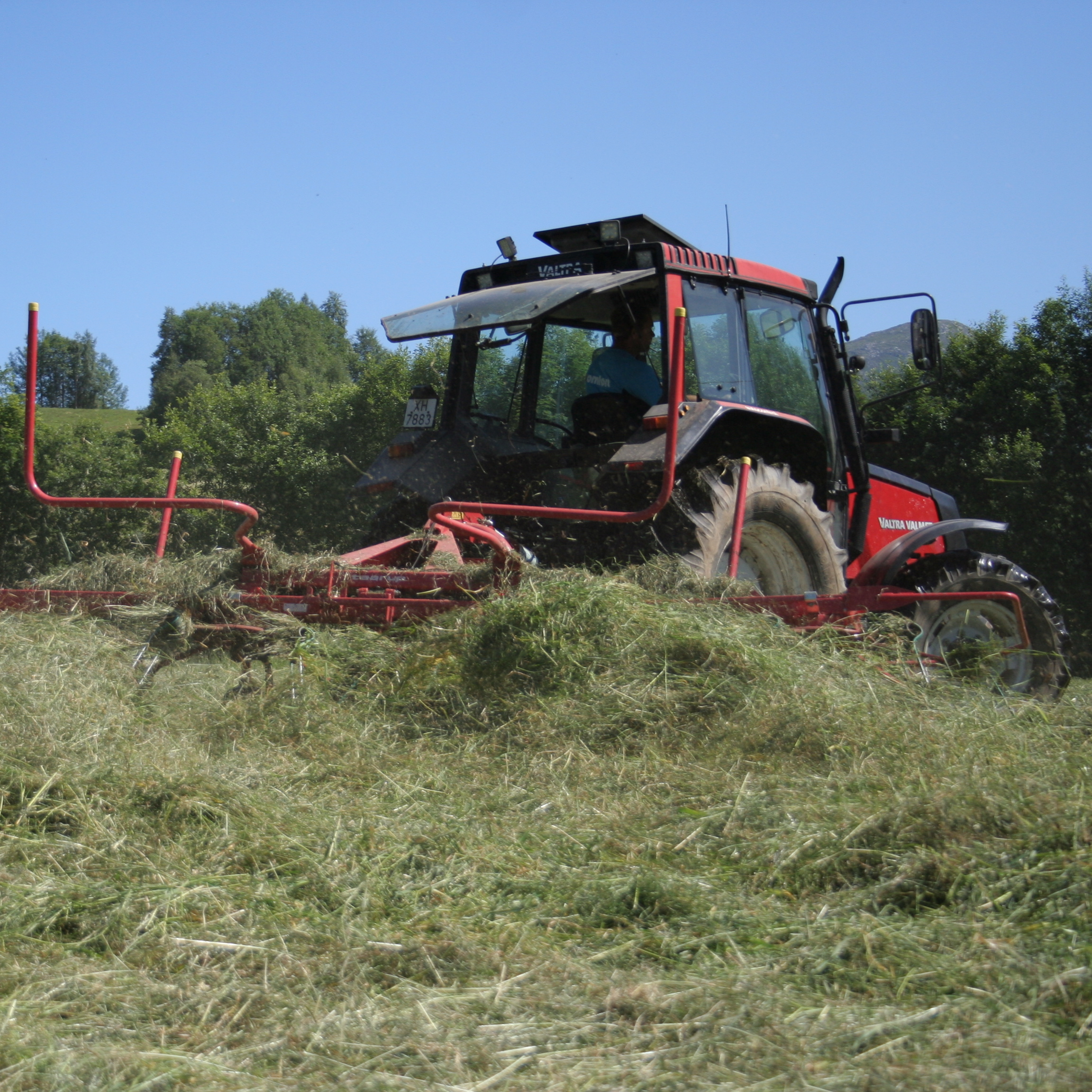 A Valtra Valmet tractor with a Taarup rotary tedder; Hornindal Indre, Sogn og Fjordane Fylke, Norway. – "My sister and brother-in-law are drying the hay in the modern way. After cutting it, it is left on the ground and turned a couple of times per day, using this huge piece of tractor equipment, that tosses the hay about 1 meter up and turns it. This procedure is repeated for 4-6 days, depending on the weather conditions, and the dry hay can then be collected and packed into round bales of fodder."